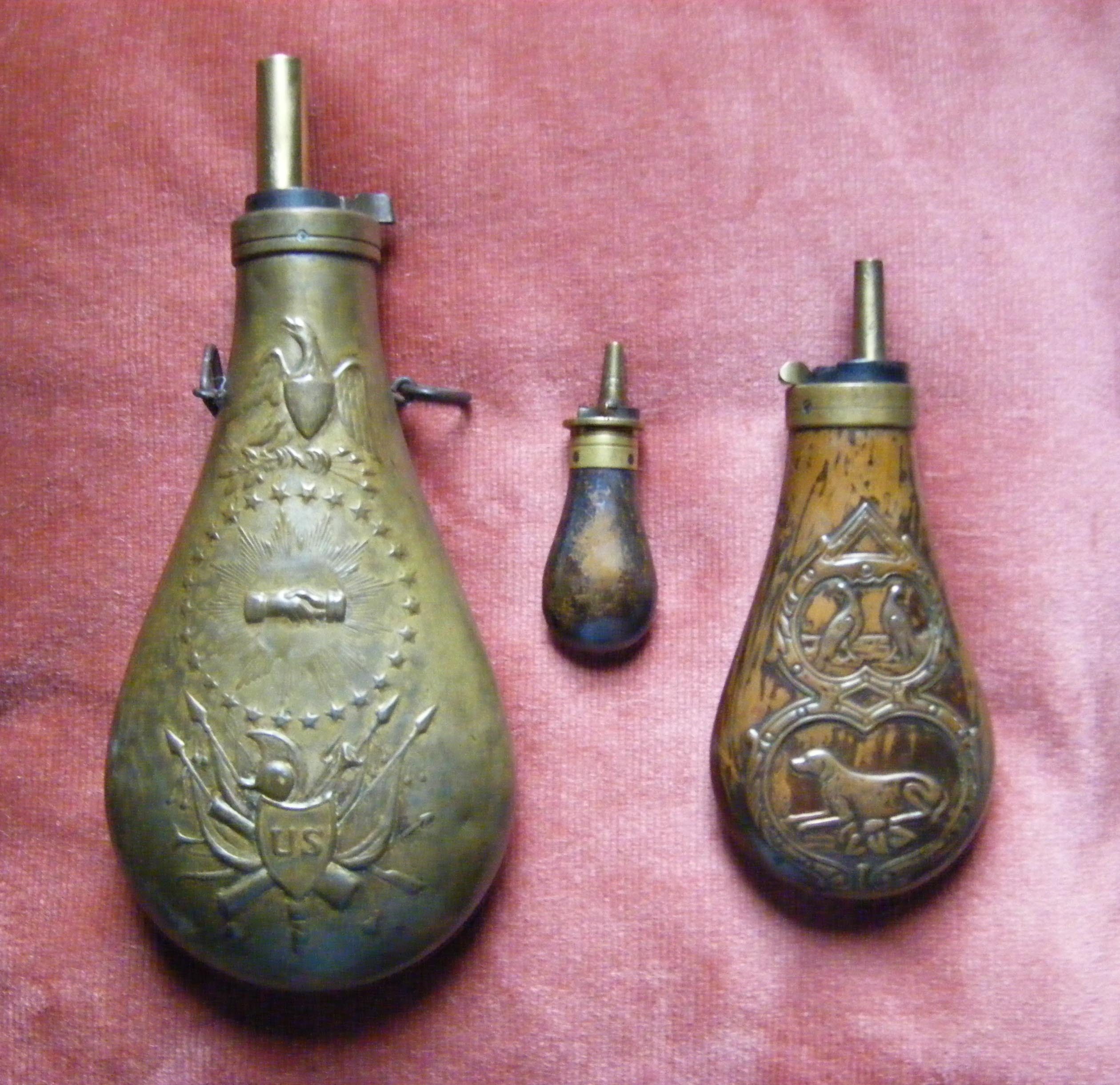 Flasks for black powder guns. From left to right: Colt, unknown, Remington